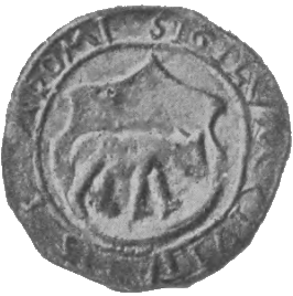 Seal of Adamów, 16 cent.